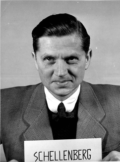 Nuernberg, Germany, Defendant Walter Schellenberg in the Nuernberg trials, 1946-1947